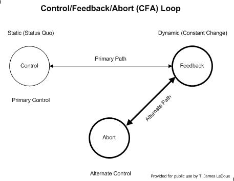 Control-Feedback-Abort Loop with Alternate Path highlighted.